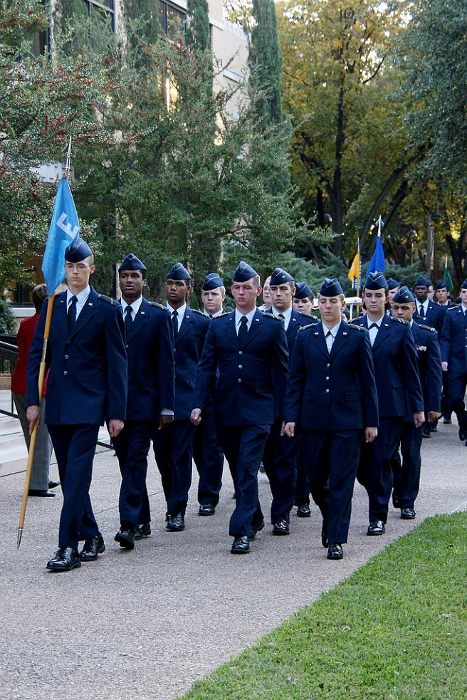 The Airforce ROTC marching at Angelo State University, San Angelo Texas.